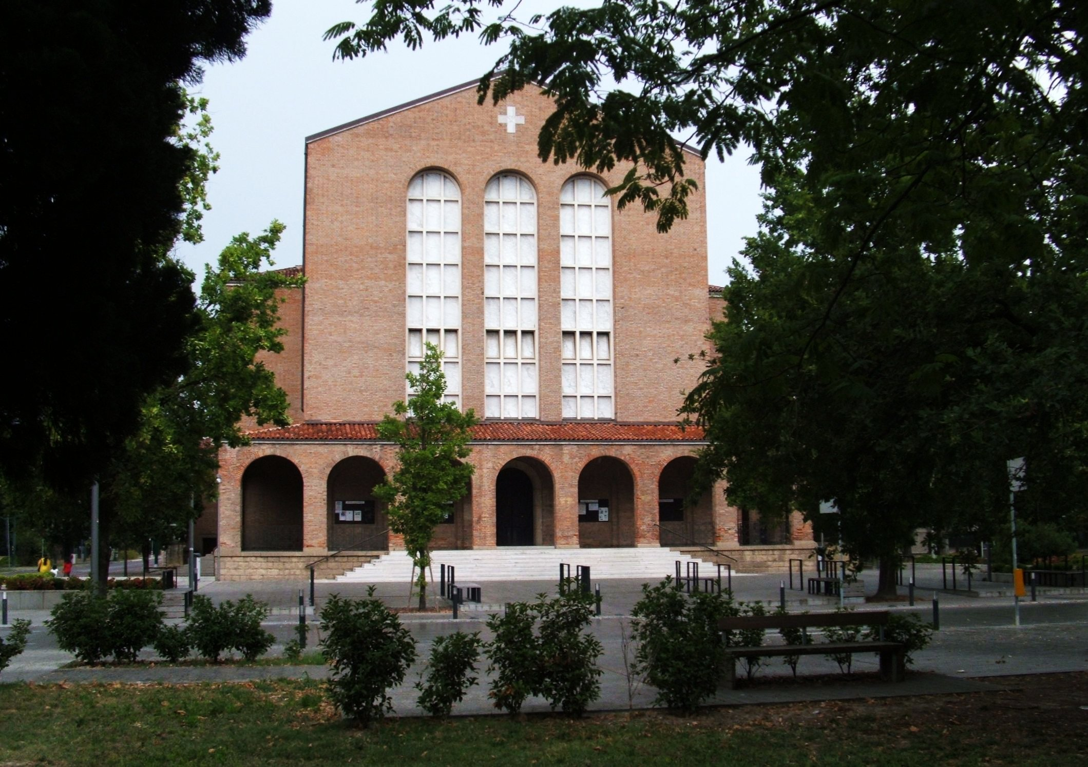 S. Antonio Church in Marghera (Venice)